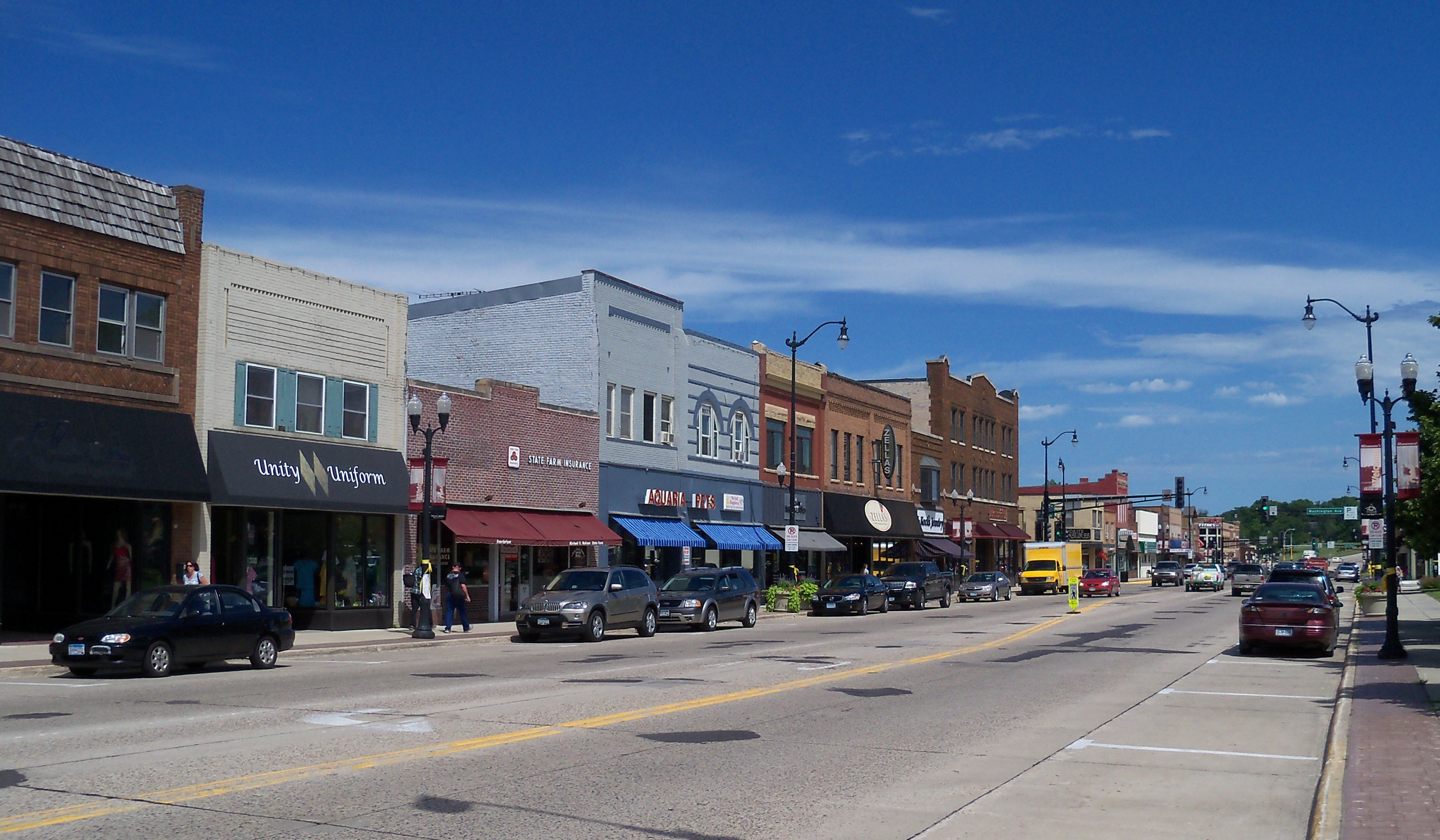 Street in Hutchinson, Minnesota, USA.